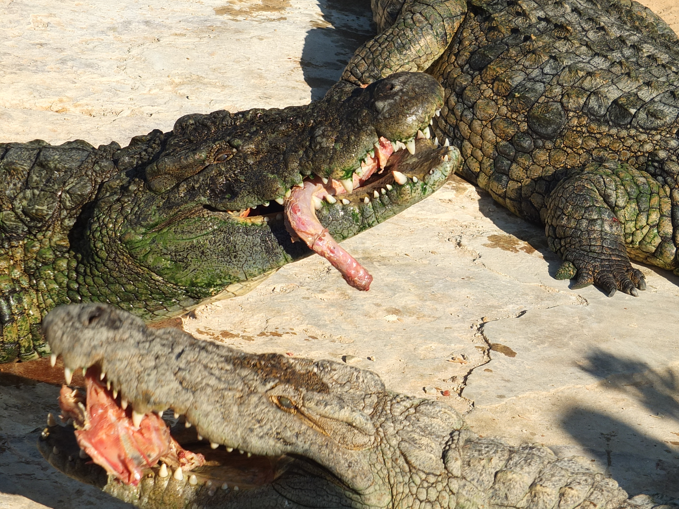 Nile crocodiles in the crocodile farm of Djerba Explore.